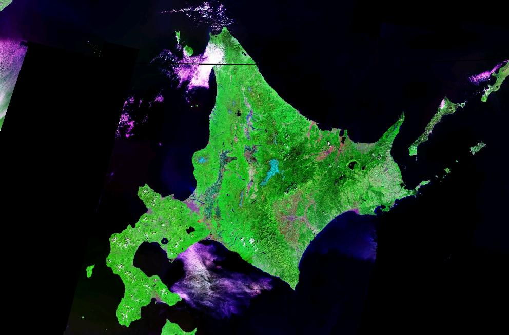 Hokkaido, Japan. satellite image